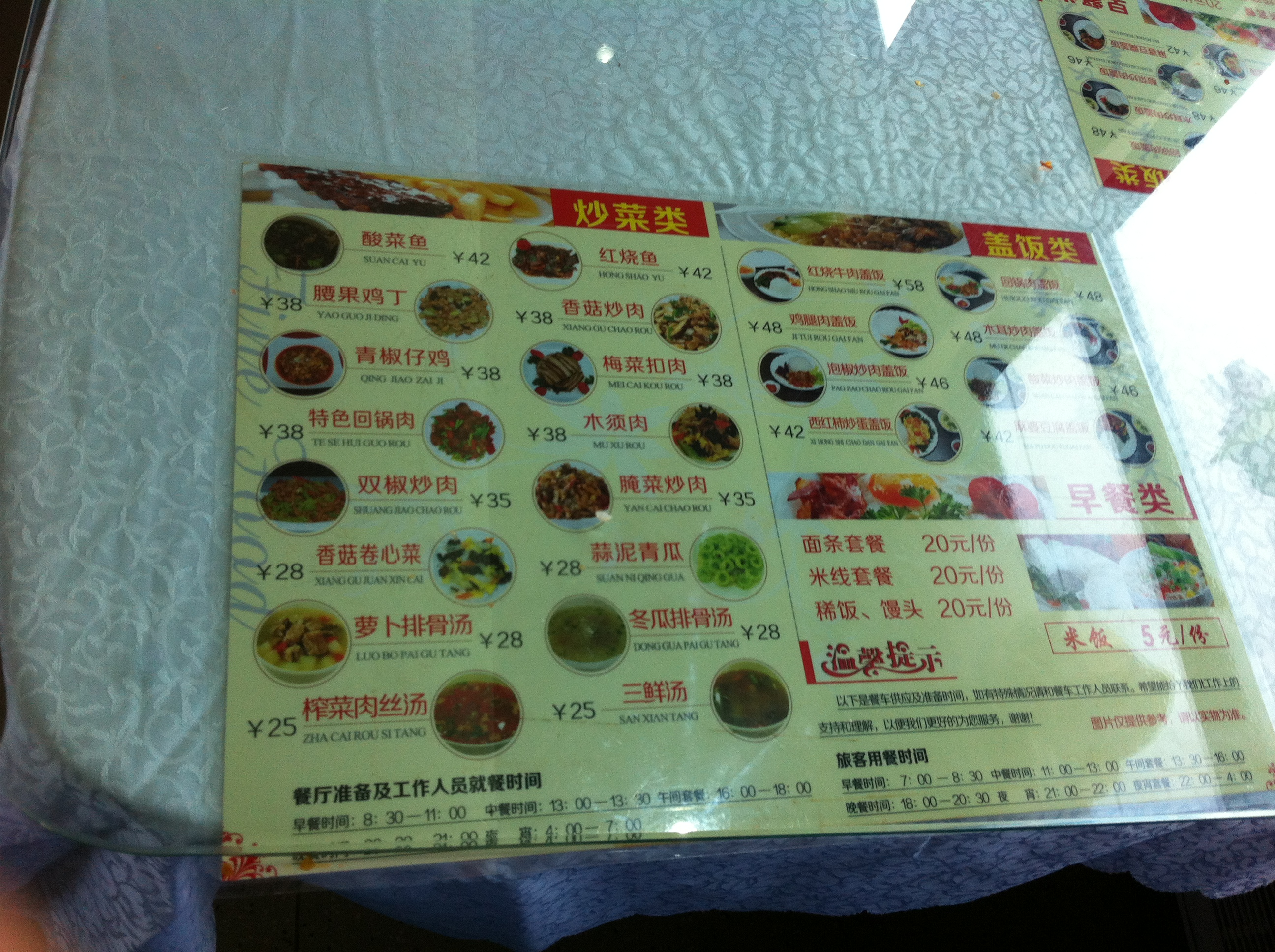 The menu onboard T61/62 train between Beijing and Kunming, in CA25T 894383 dining car.